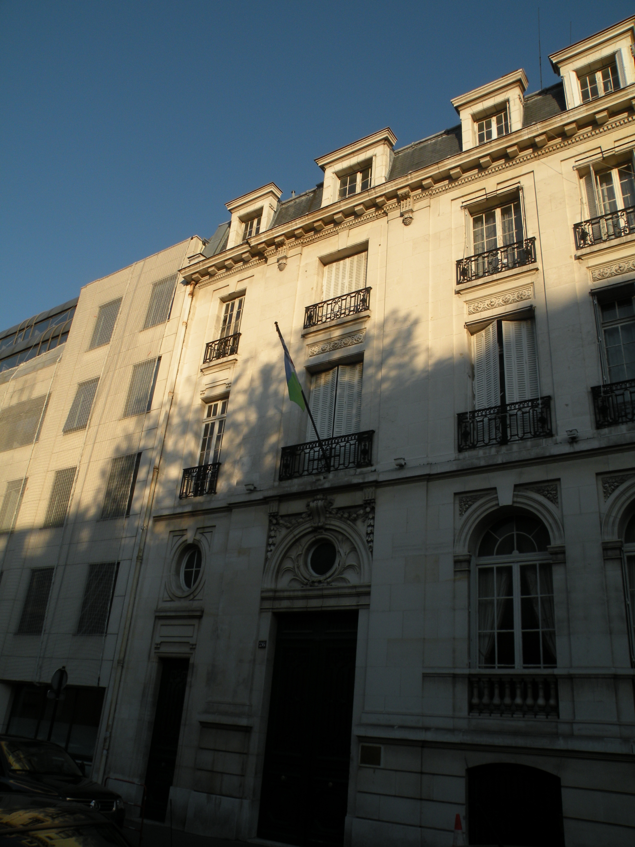 Djiboutian embassy in France, Paris